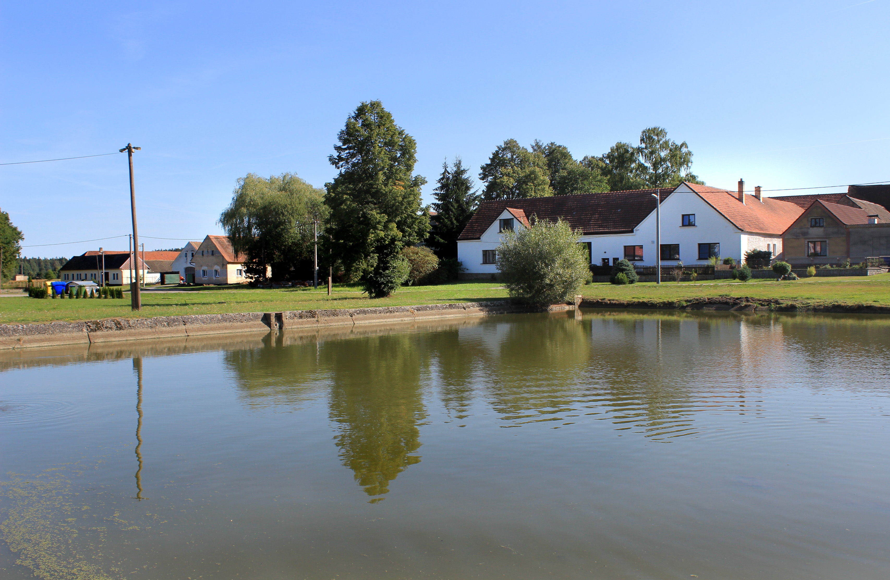 Common pond in Zadní Vydří, Czech Republic.